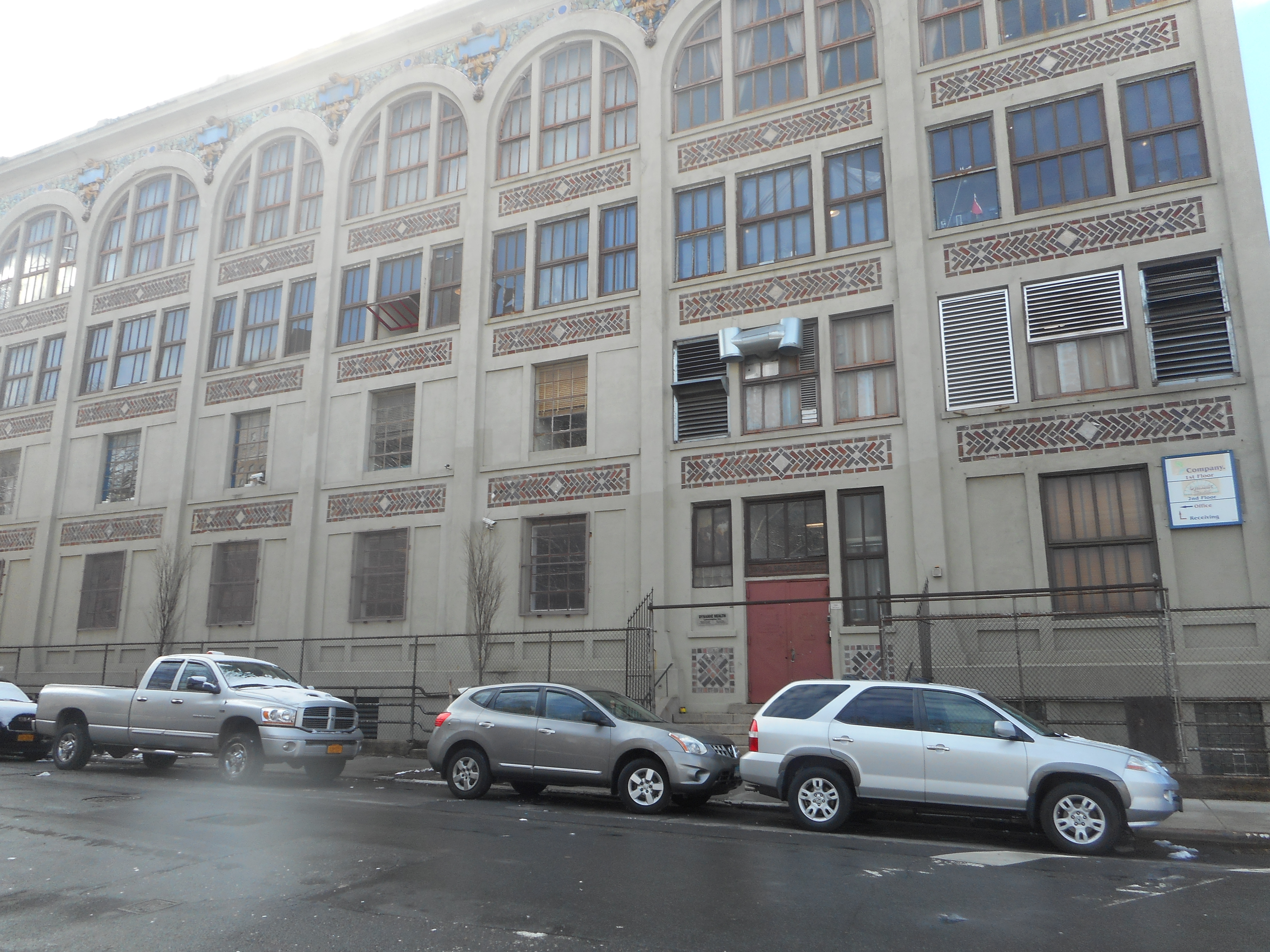 The NRHP listed Public School Number 7 along Bridge Street in the DUMBO section of Brooklyn, New York City. Taken from the sidewalk along the parking lot on Bridge Street owned by the Farragut Houses.